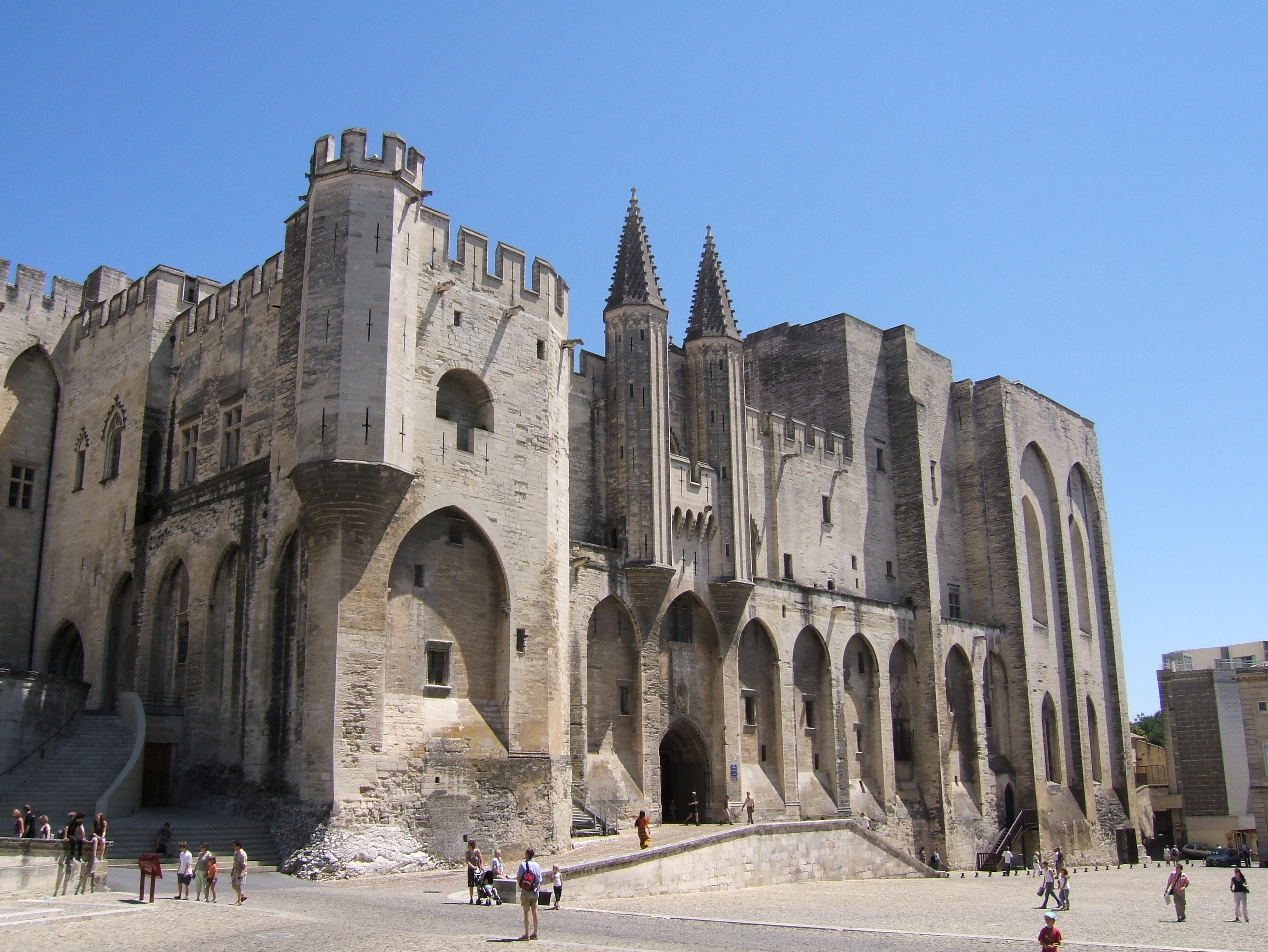 Main entrance of the Palais des Papes in Avignon, in France.